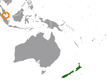 Map showing locations of both New Zealand and Singapore